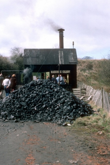 Black Country Museum. Corrugated iron Racecourse Colliery building 20 years earlier than 241353.